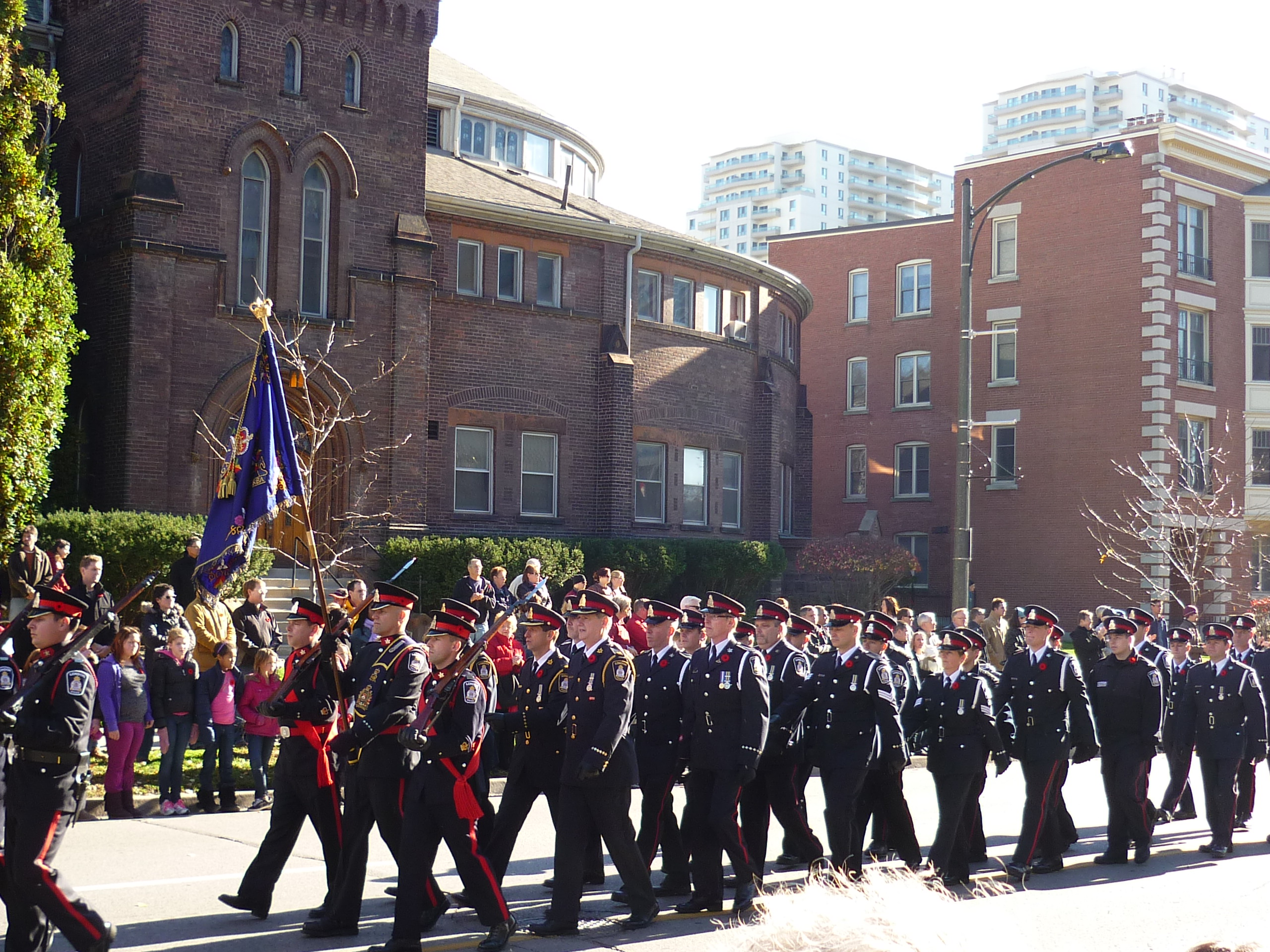 Remembrance Day, 2010, London, Ontario. Photos by Wayne Ray and Virginia Brown.